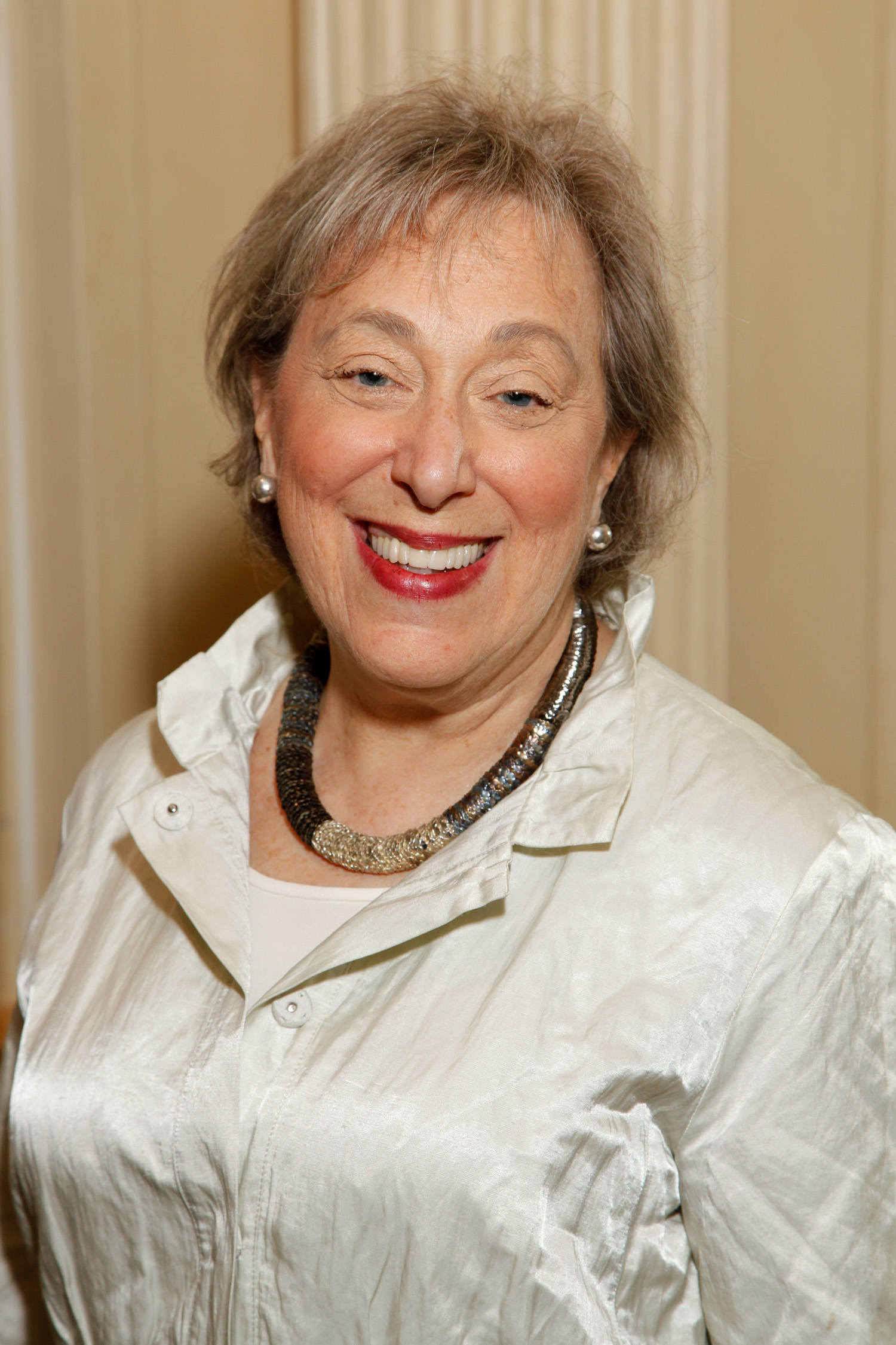 Attorney Marcia Greenberger, at Women’s eNews’ 21 Leaders for the 21st Century for 2012. Photo credit: Lindsay Aikman/Michael Priest Photography